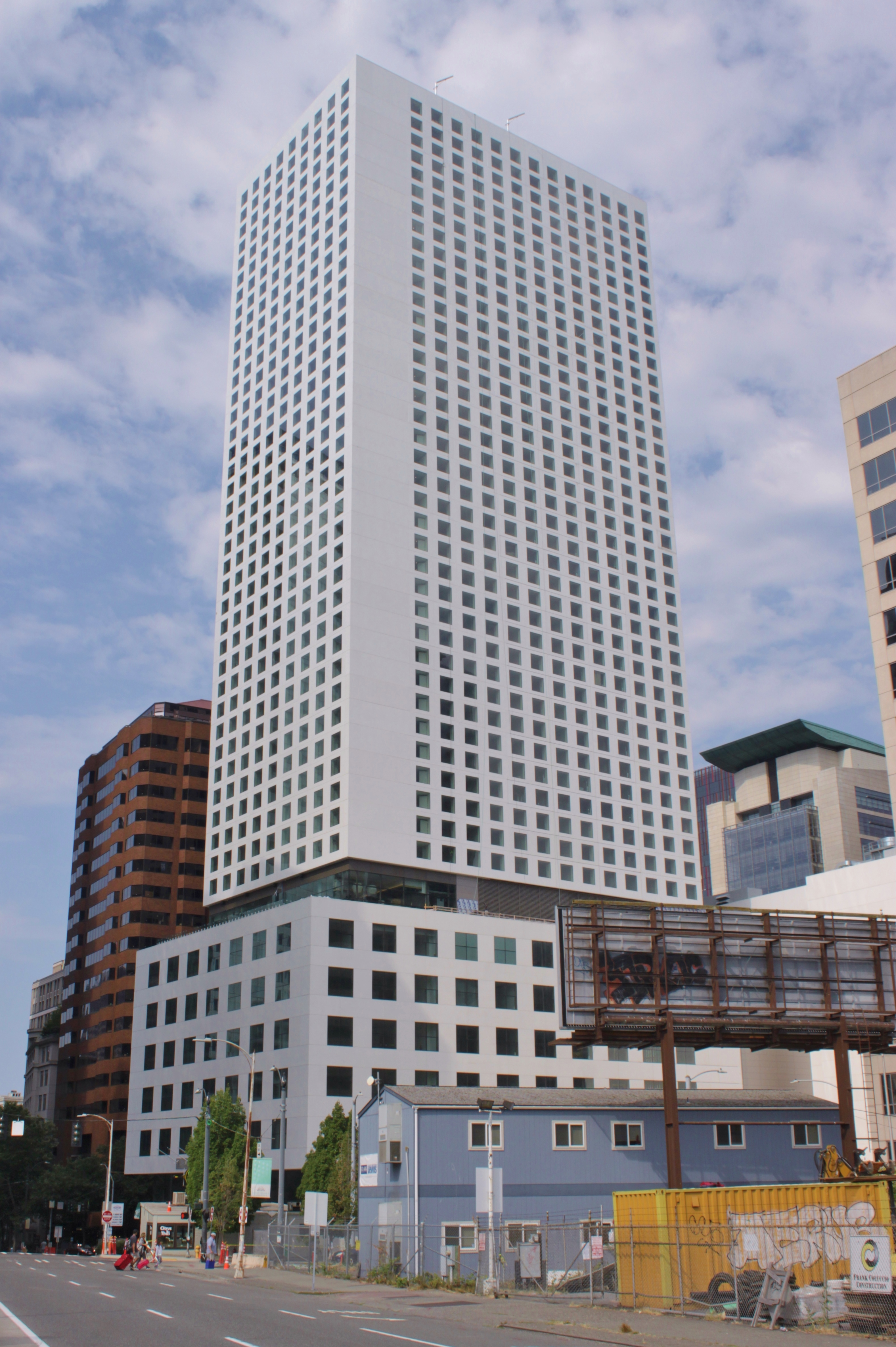 The topped-out and near-completed Hyatt Regency Seattle hotel, seen from Olive Way and Terry Avenue.